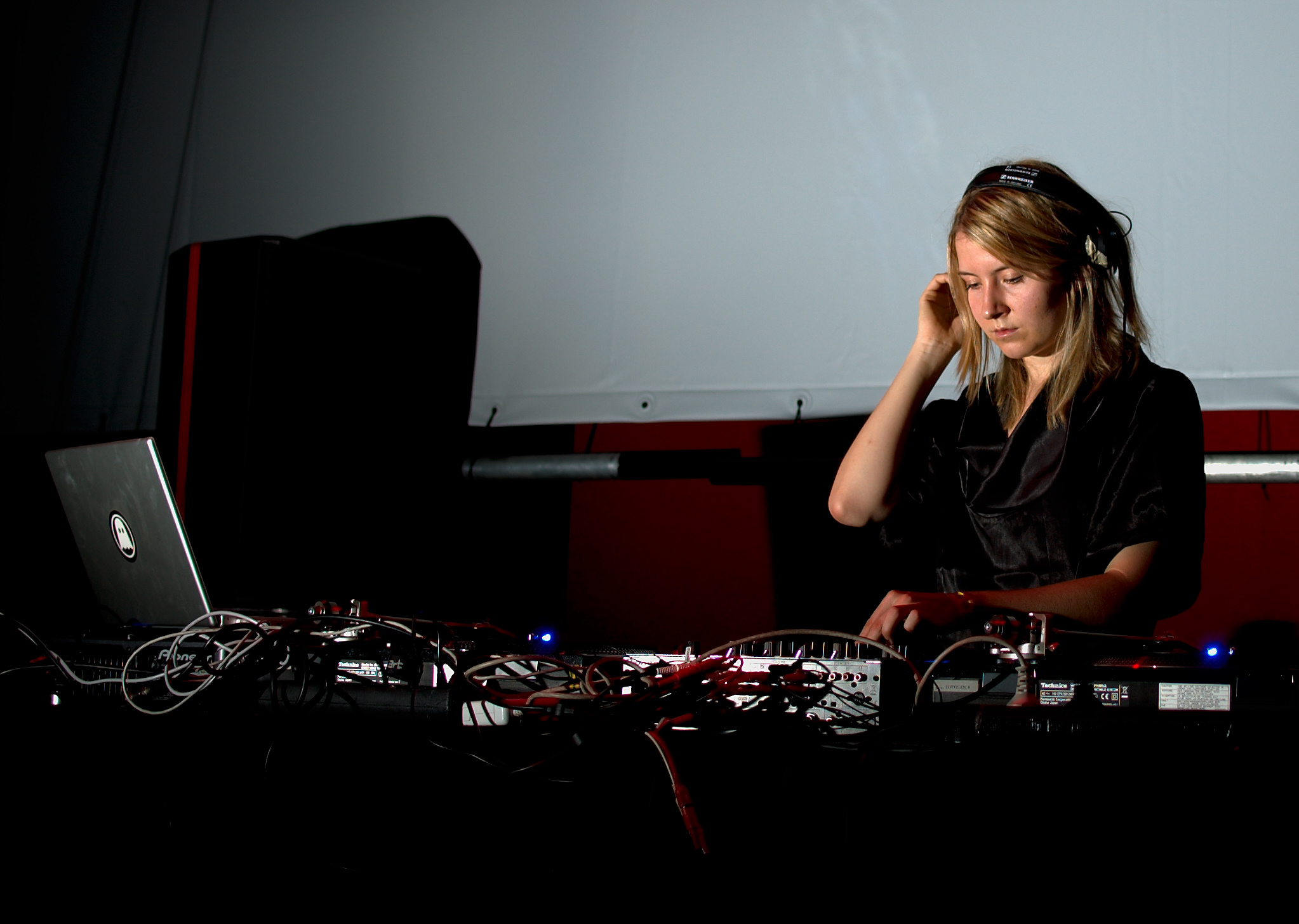 Clara Moto mixing, 2009.